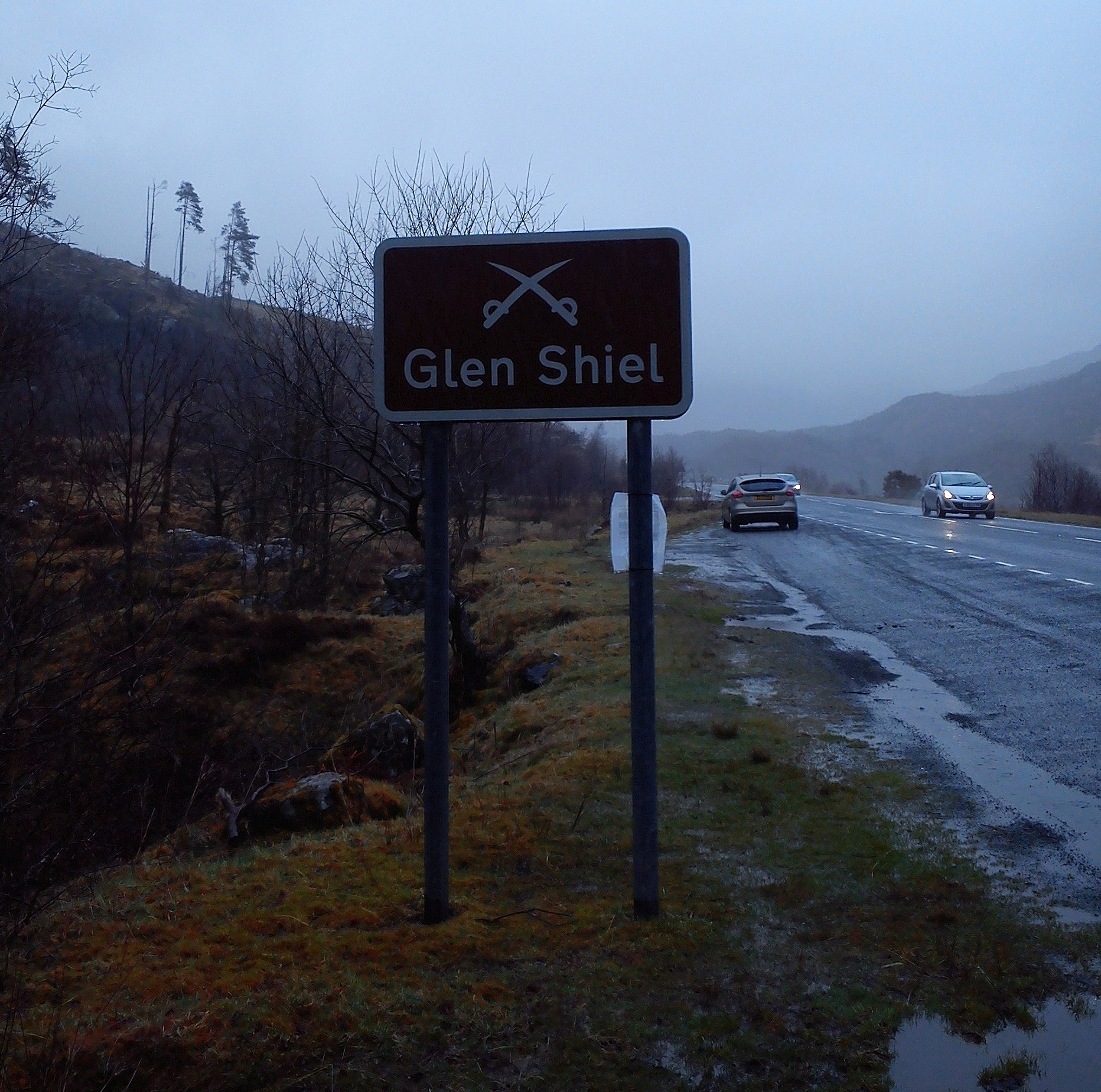 Sign for the Battle of Glen Shiel Memorial, Glen Shiel